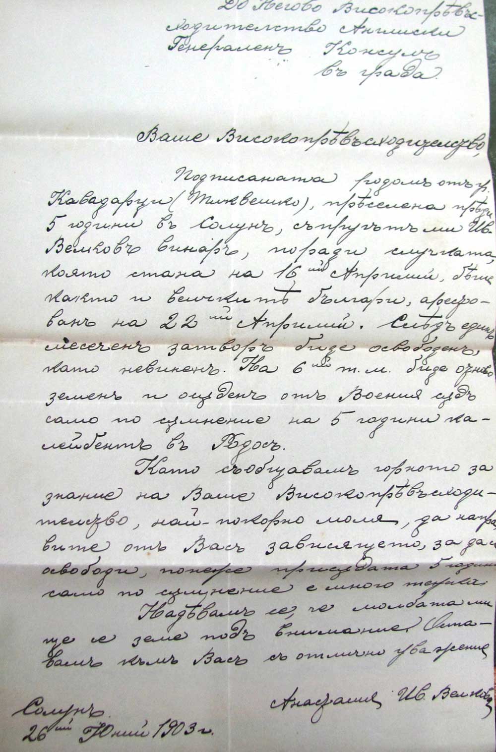 Letter from Anastasia Velkova to the British General Consul in Salonica, 26 June 1903